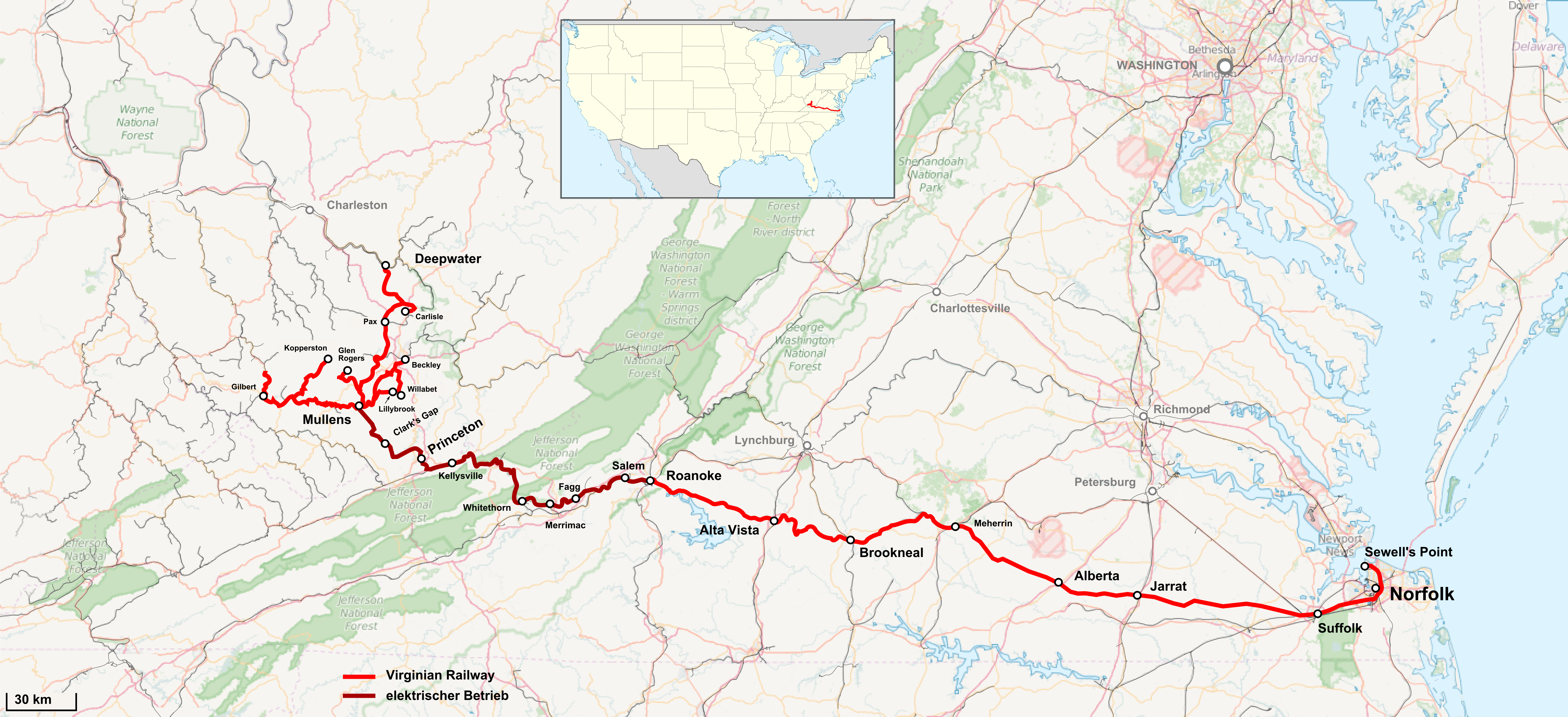 Map of Virginian Railway